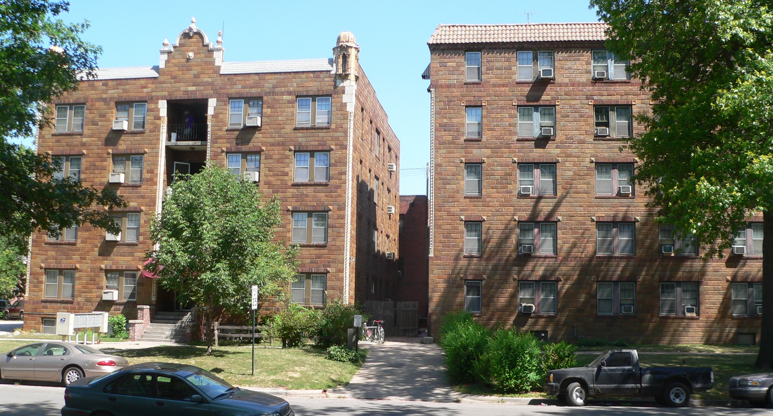 Palisade and Regent Apartments at northwest corner of 17th and D Streets in Lincoln, Nebraska. At left is the Regent, at 1626 D Street. At right is the Palisade, at 1035 S. 17th Street. View is from the south. The front of the Regent faces east, toward 17th, and is not shown.